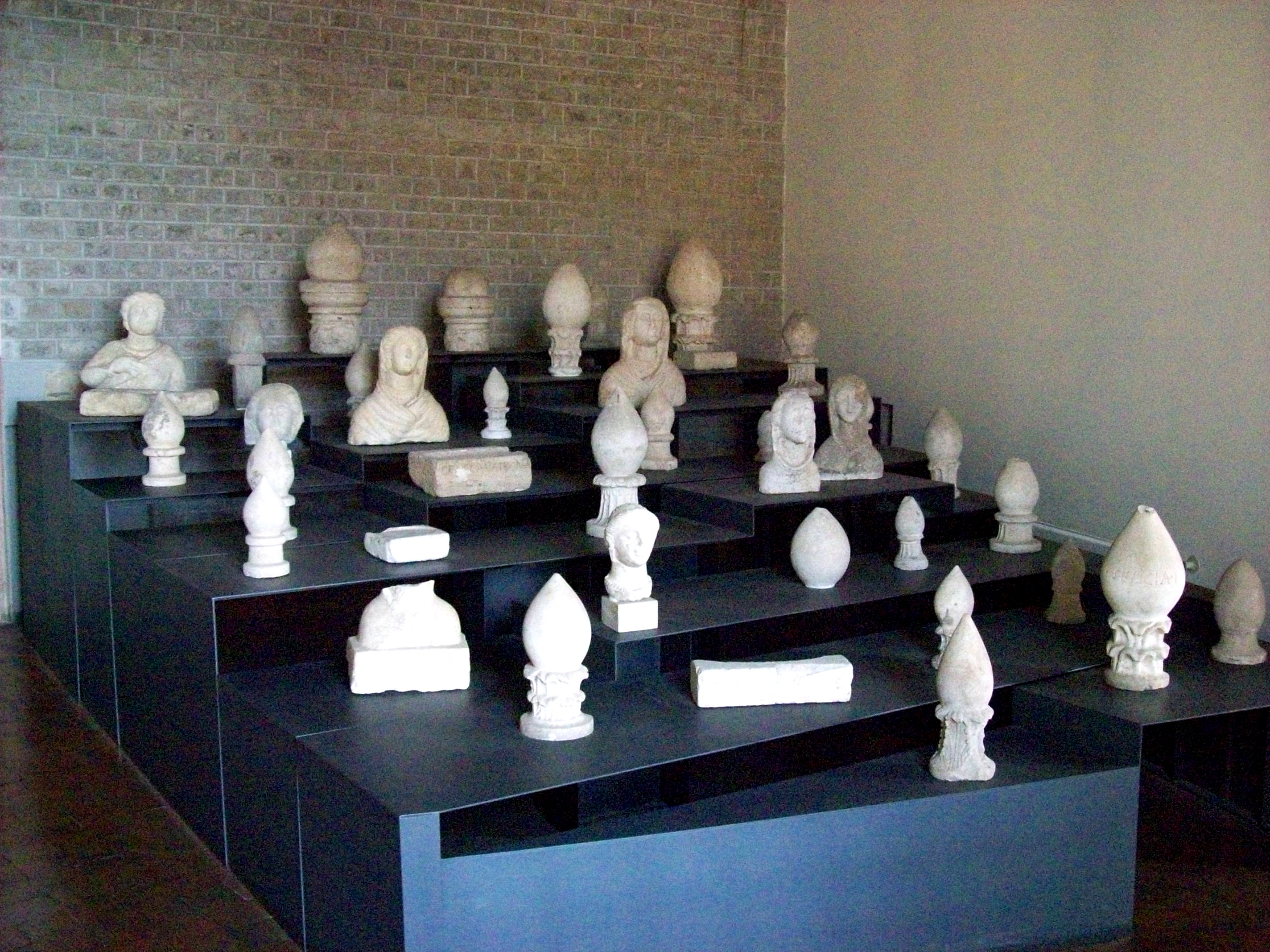 Ancient Roman gravestones at the Museo Archeologico Prenestino, Palestrina, Rome, Italy